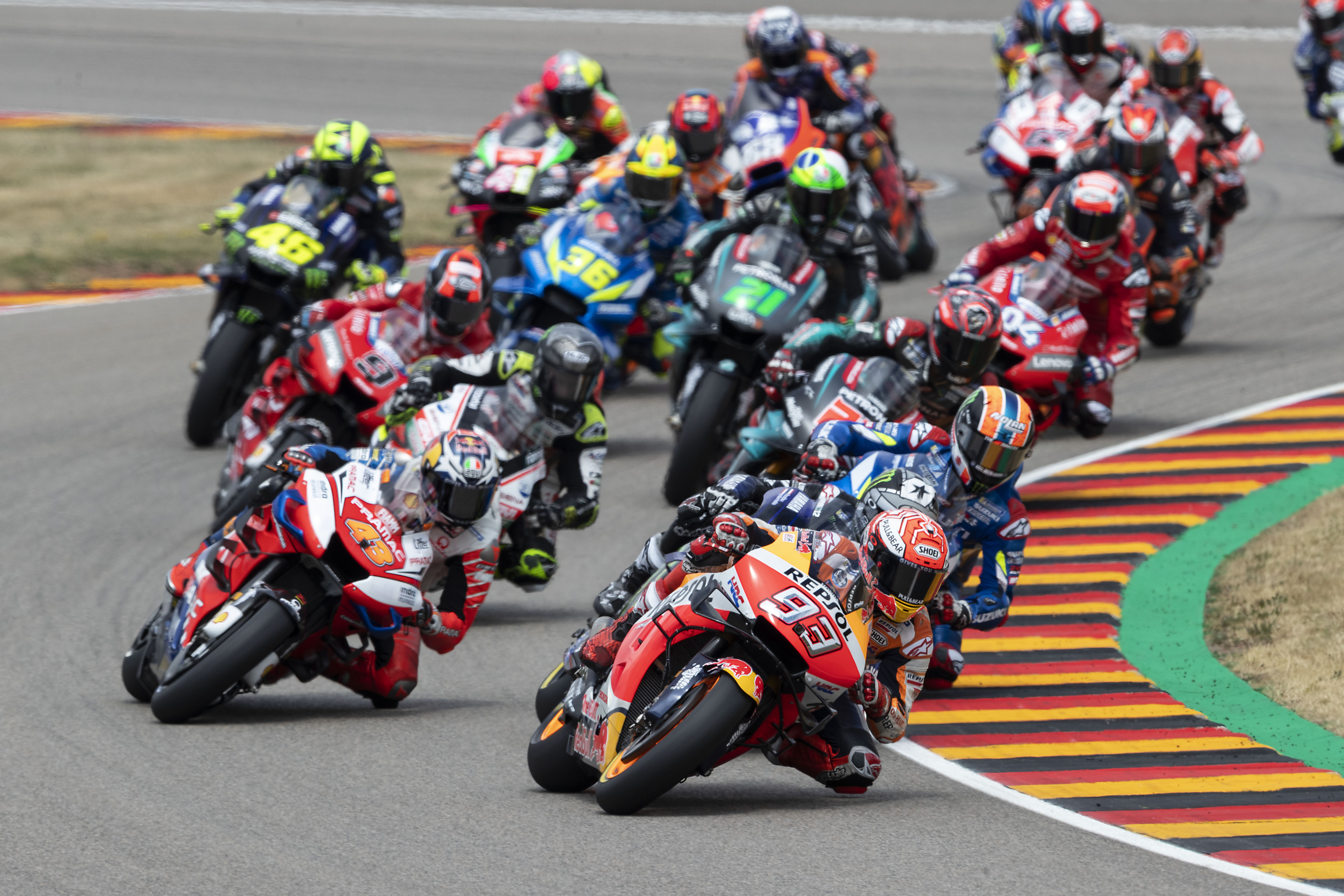 Marc Márquez, riding his Repsol Honda, leading the pack on the opening lap of the 2019 German Grand Prix.